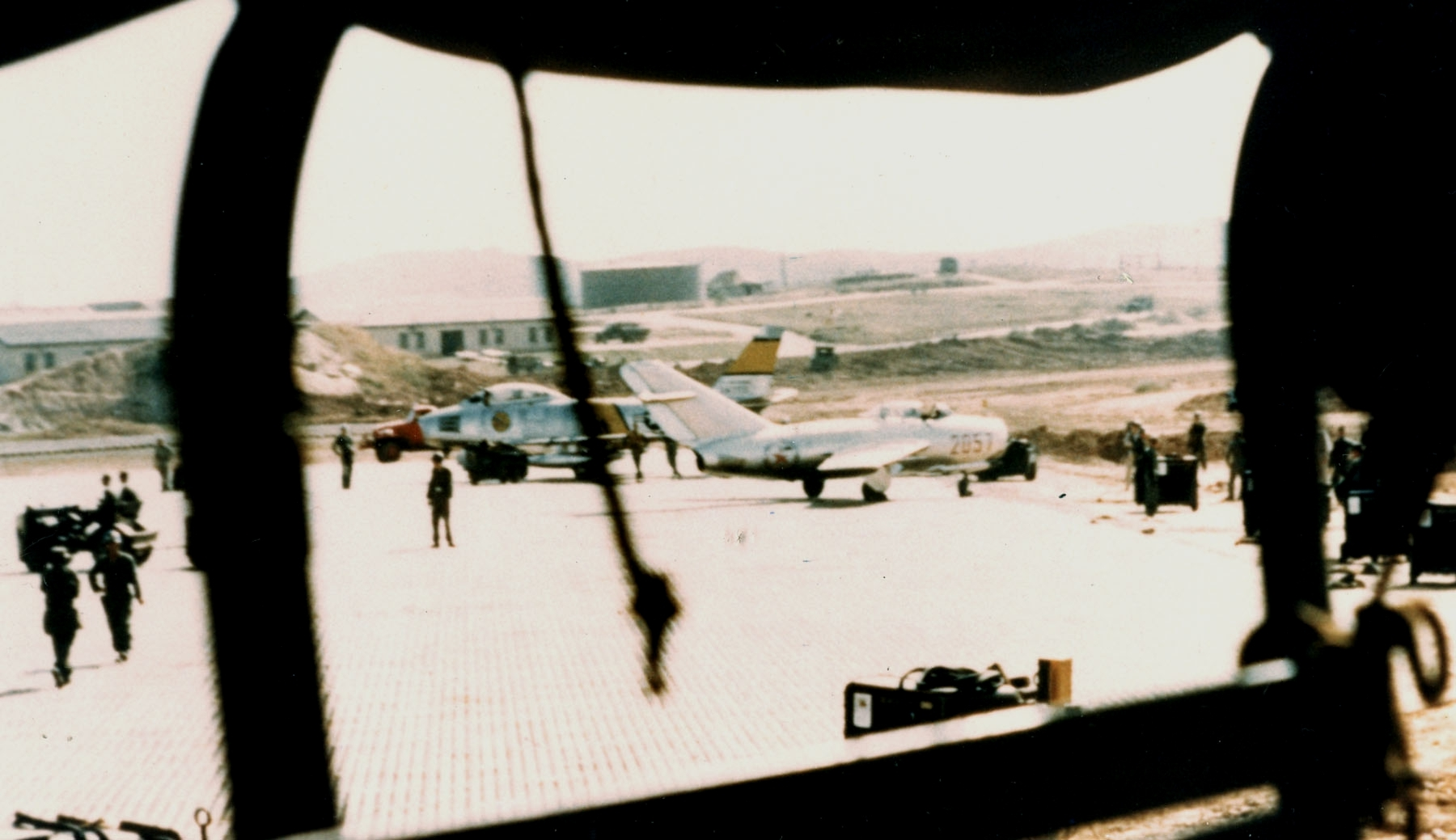 The Mikoyan Gurevich MiG-15bis of North Korean Senior Lt. No Kum-Sok at Kimpo air base, South Korea, about five minutes after it landed on 21 September 1953. Kom-Sok, who had long before decided to escape to South Korea, suddenly landed downwind at Kimpo Air Base near Seoul, South Korea, greatly surprising the personnel there. Within a day the plane was flown to Okinawa, today it is on display at the Museum of the United States Air Force in Dayton, Ohio (USA). Note the USAF 4th Fighter-Interceptor Wing North American F-86F Sabre behind the MiG.